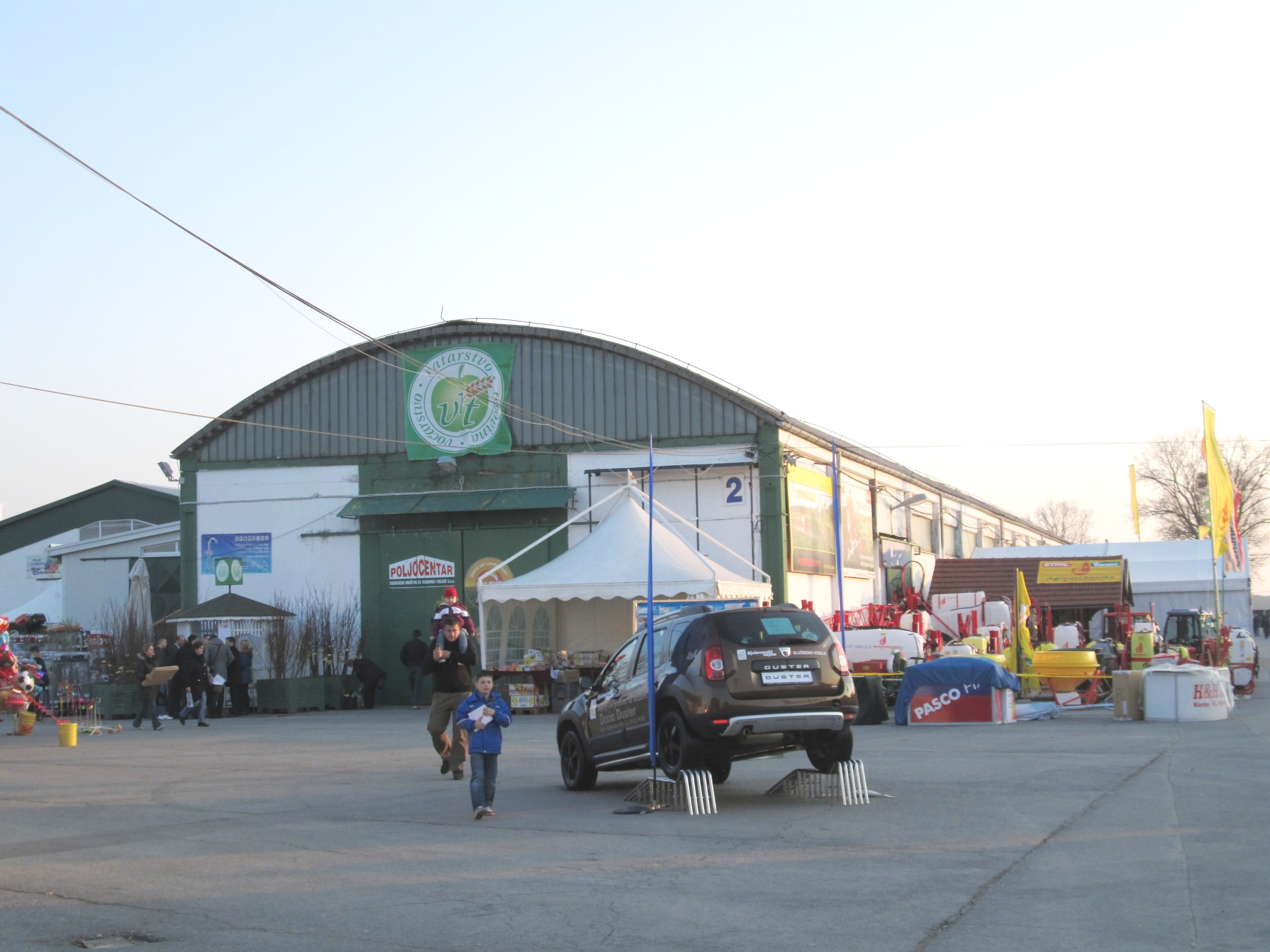 Agriculture-economical Fair in Gudovac, Bjelovar, Croatia